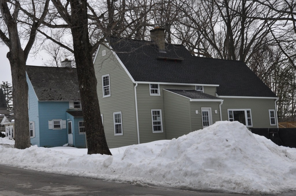 Houses on Westinghouse Road, in the Indian Hill-North Village historic district, Worcester, Massachusetts.